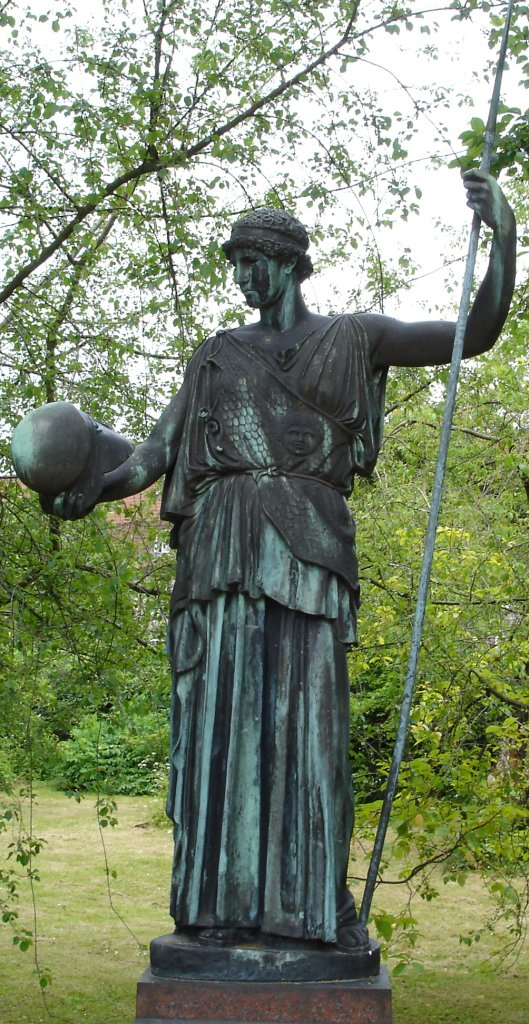 Sculpture of Athena, Botanical Hardens, Copenhagen, Denmark